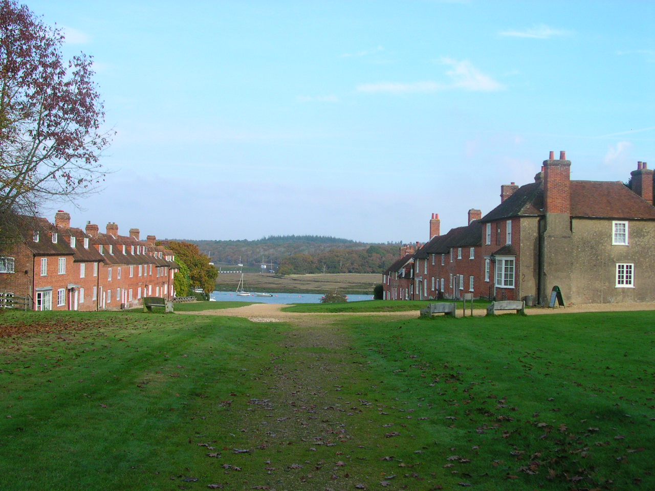 Taken at Bucklers Hard, Hampshire, England.